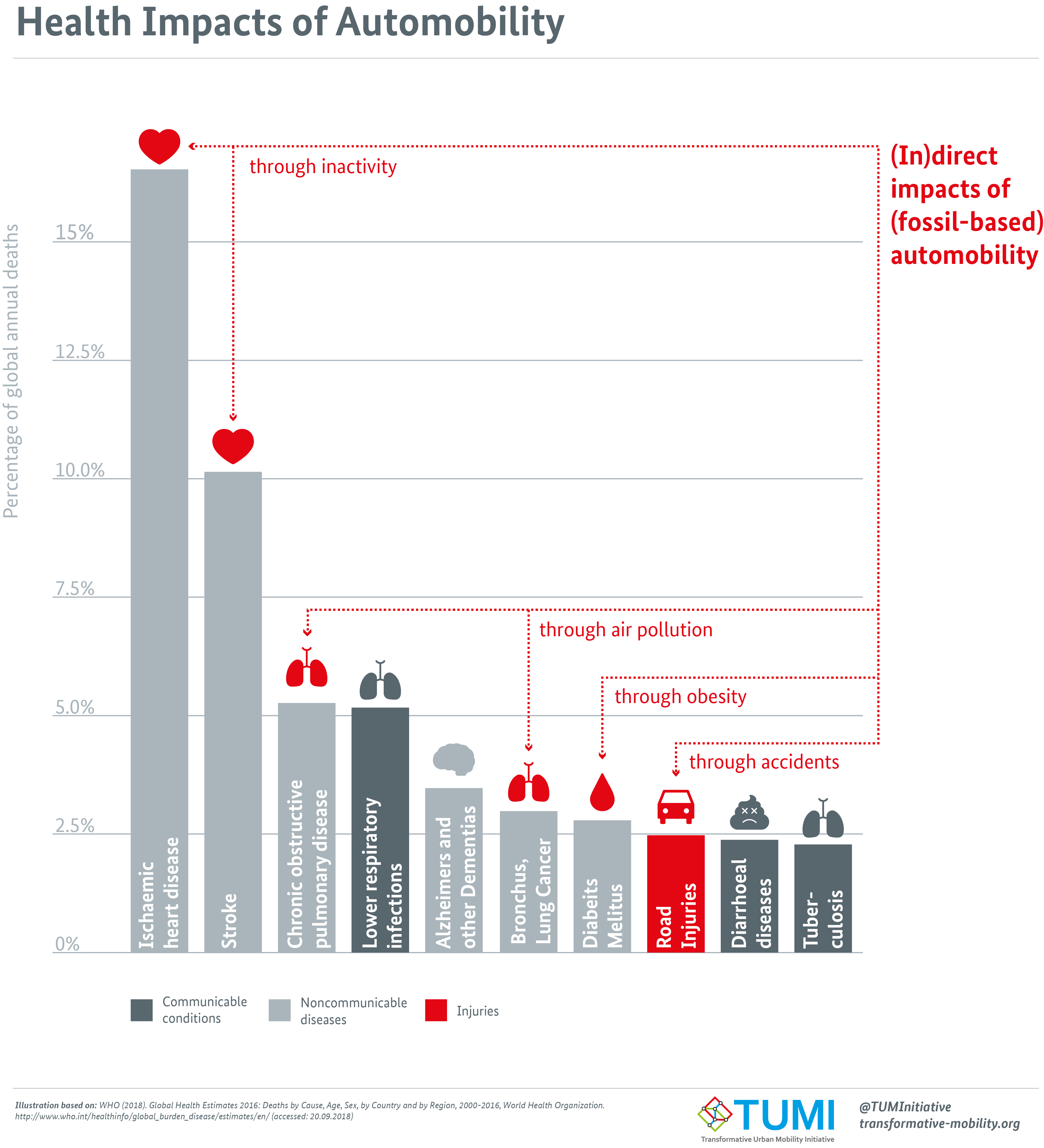 Health Impacts of Automobility (In)direct impacts of (fossil-based) automobility trough inactivity, air pollution, obesity accidents on Percentage of global annual deaths of Ischaemic heart diseases Stroke Chronic abstructive pulmonary disease Lower respiratory infections Alzheimers and other Dementias Bronchus, Lung Cancer Diabetis Melitus Road Injuries Diahoeal diseases Tuberculosis Transformative Urban Mobility Initiative